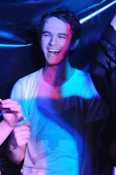 The DJ Zedd.